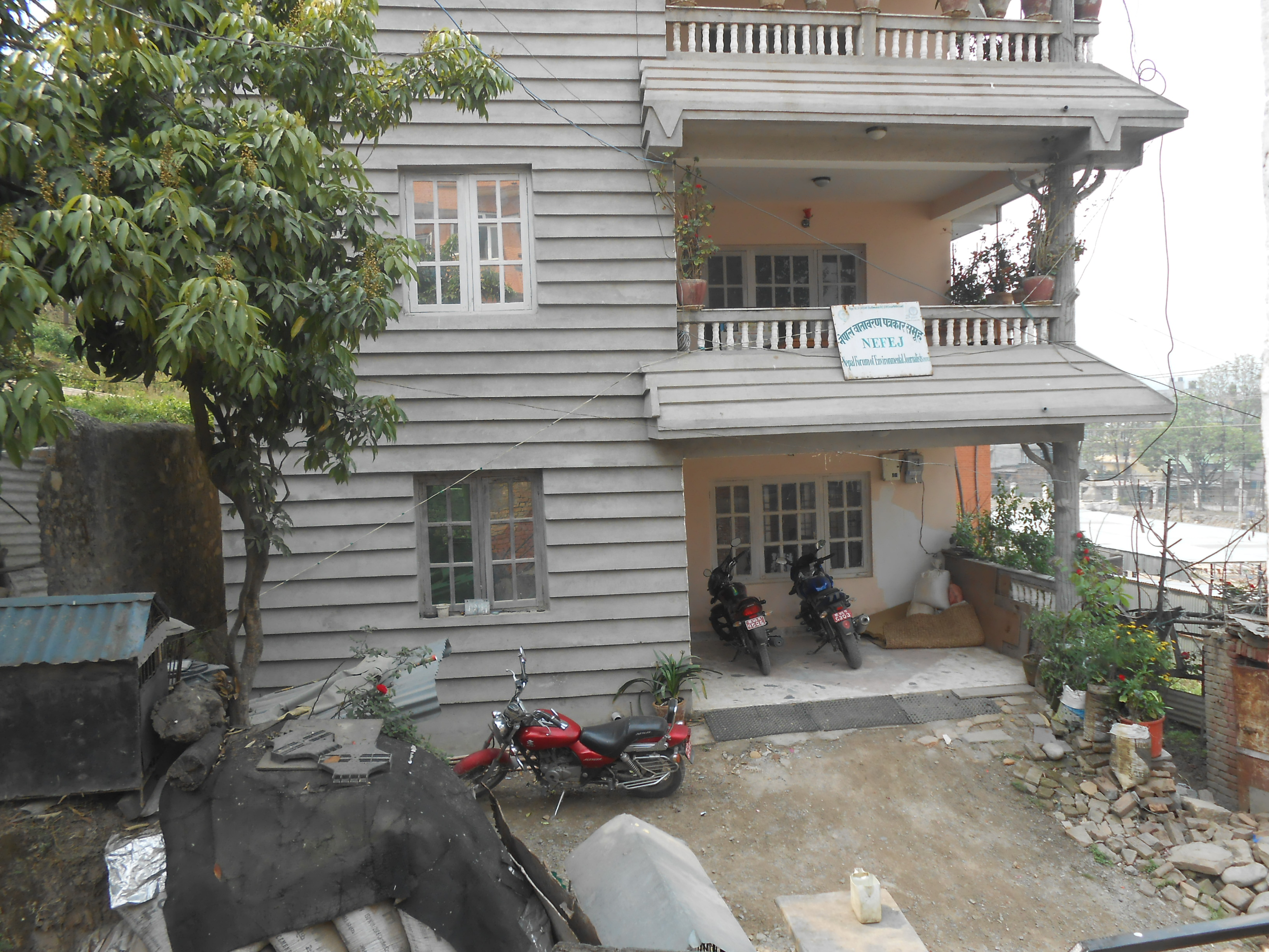 Nepal Forum of Environmental Journalists Buildingनेपाली: नेपाल वातावरण पत्रकार समुहको भवन